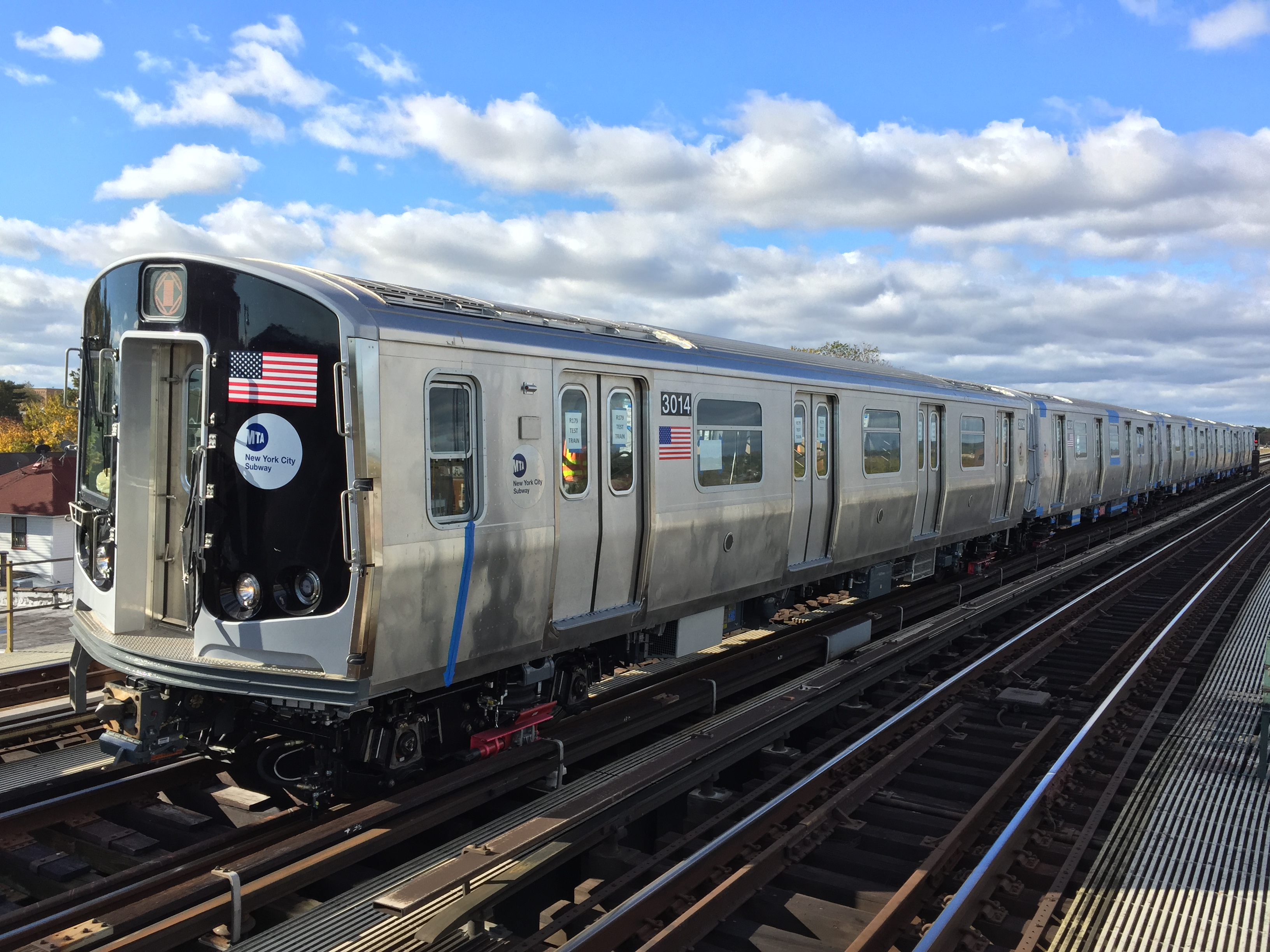 First R179 test train (3010-3014) awaiting the lineup to the Rockaways from Liberty Tower. Taken from Rockaway Boulevard @ 10:20a 10/28/16.